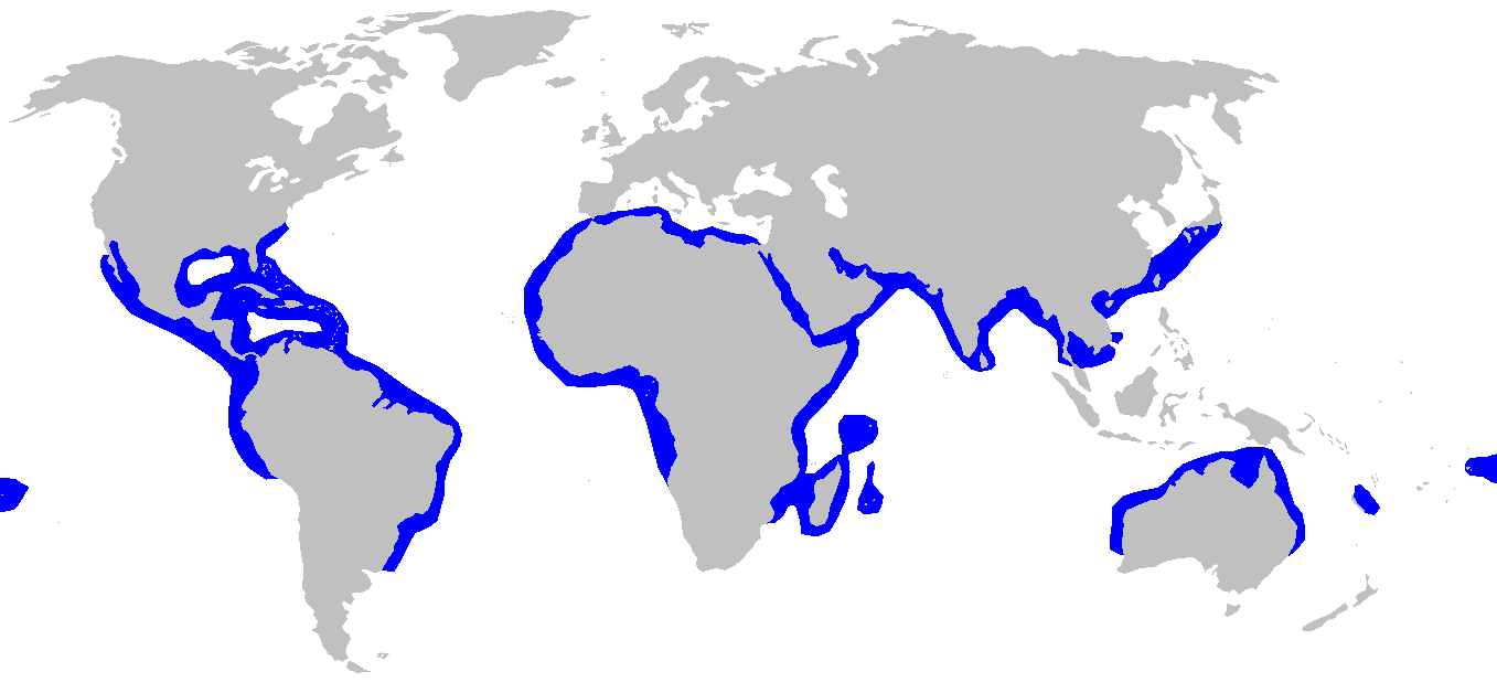 Distribution map for Sphyrna mokarran